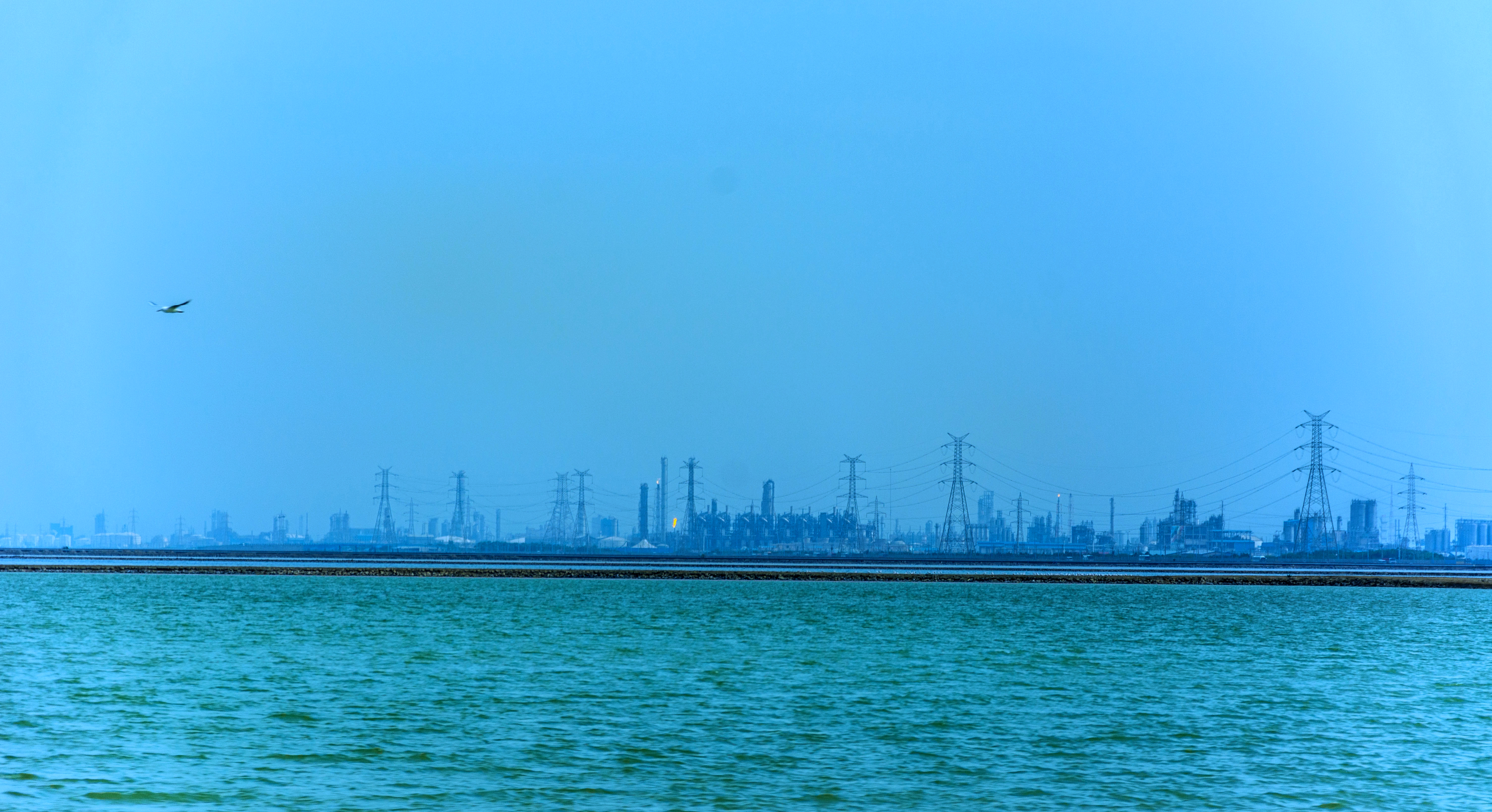 Marun Petrochemical Complex on an artificial Island. Due to the high environmental pollution, there are yellow traces in the air. This complex is located in Mahshahr (Mahschahr)in Iran and is also known as Bandar-e Mahshahr.